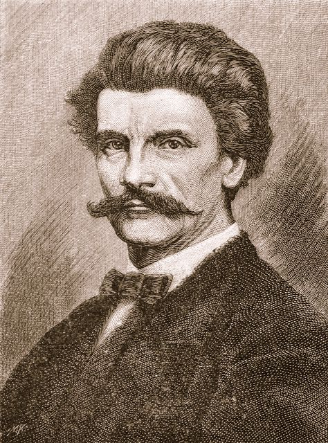 German painter Karl [Theodor] von Piloty (1826-1886)